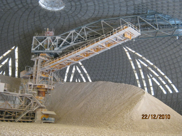 clay and stone stack silo from inside - Nesher cement, Ramla, Israel